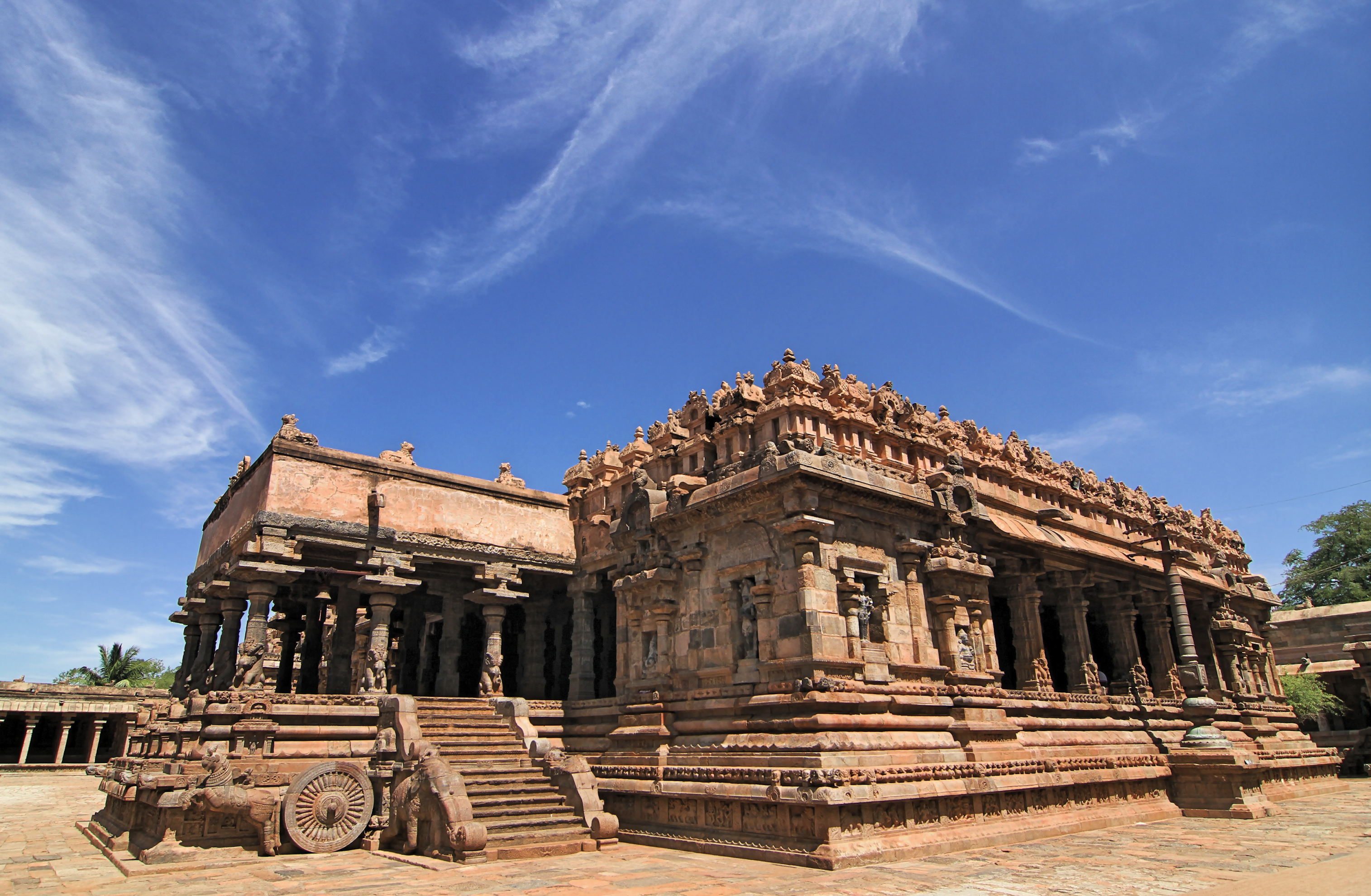 The overall view of the temple from its south east side. UNESCO World Heritage monument